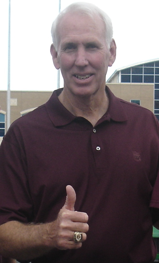 R. C. Slocum, head coach of Texas A&M University from 1989-2002. Taken at Kyle Field during Class of 2009 Junior E-walk